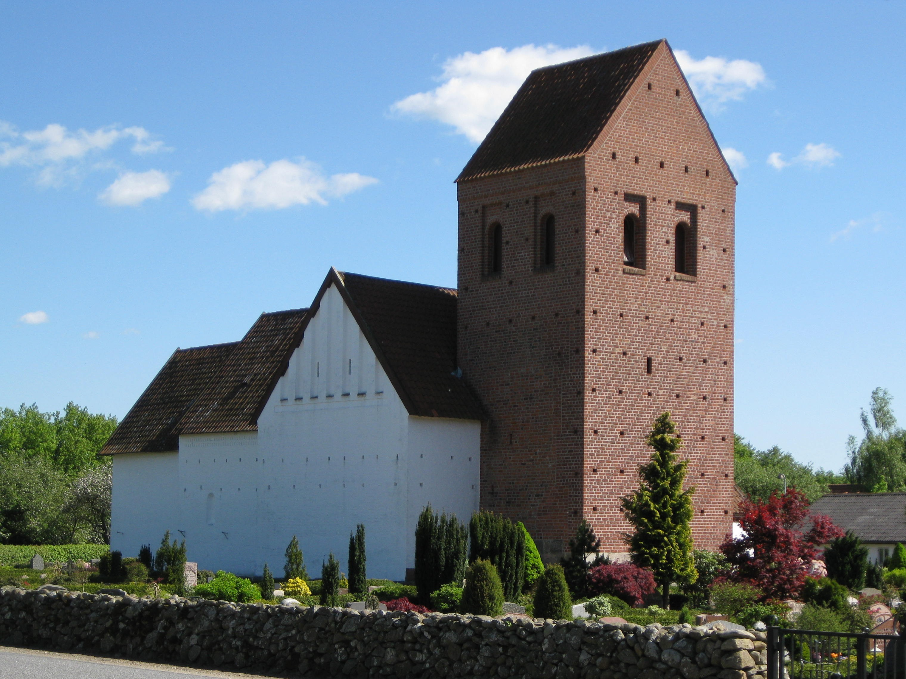 The church "Vorbasse Kirke" in the small town "Vorbasse". The town is located in Billund Kommune, South-Central Jutland, Denmark.